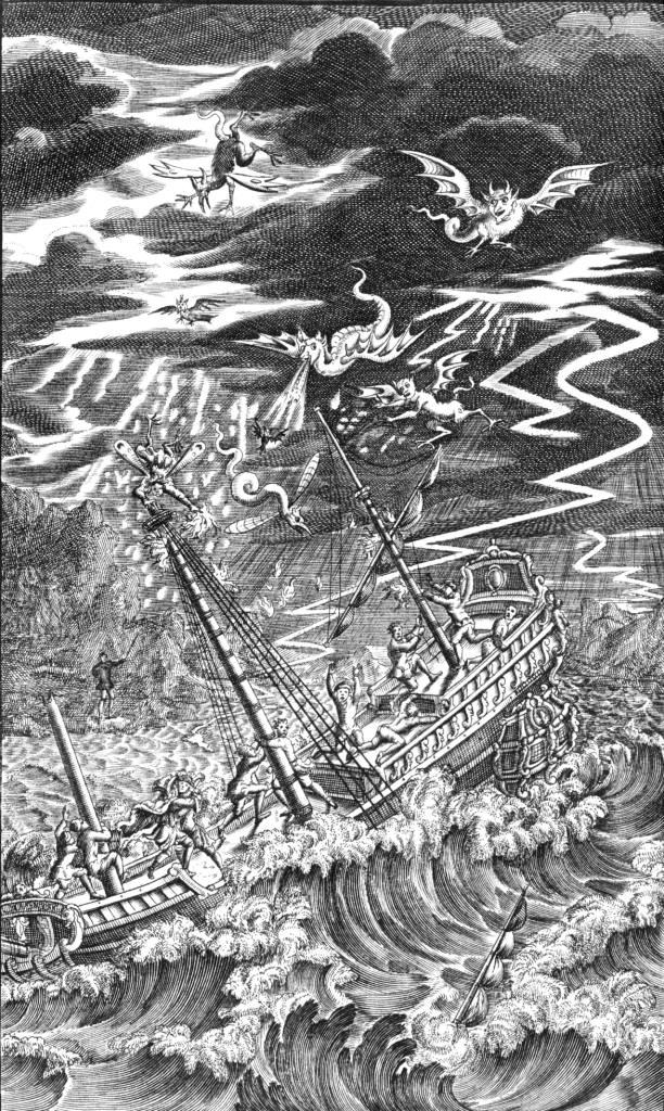 Frontispiece of the opening scene of The Tempest scanned from Rowe's 1709 edition.